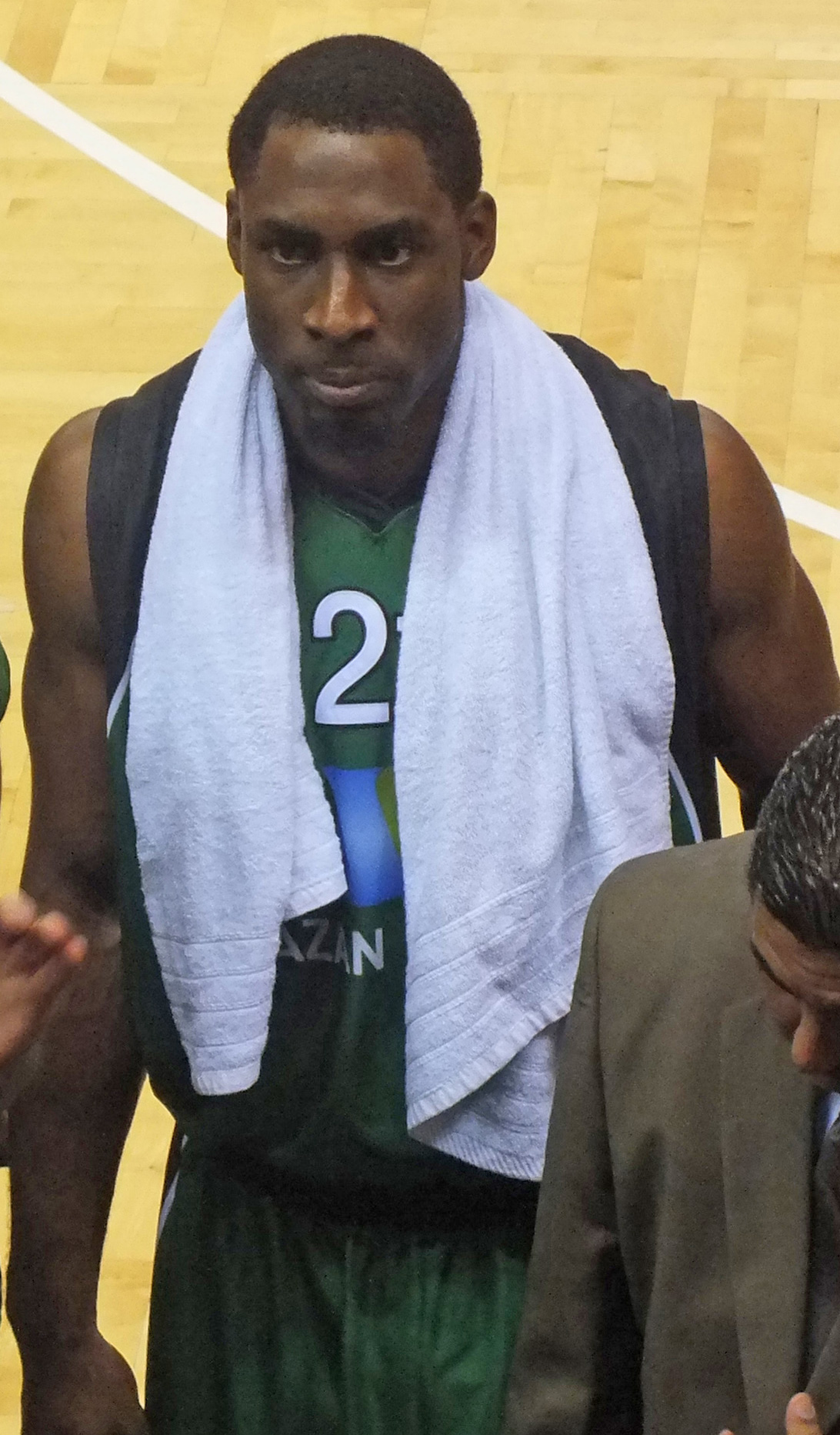 Ikechukwu Ofoegbu, Player for The Greens in the 2013/14 season.